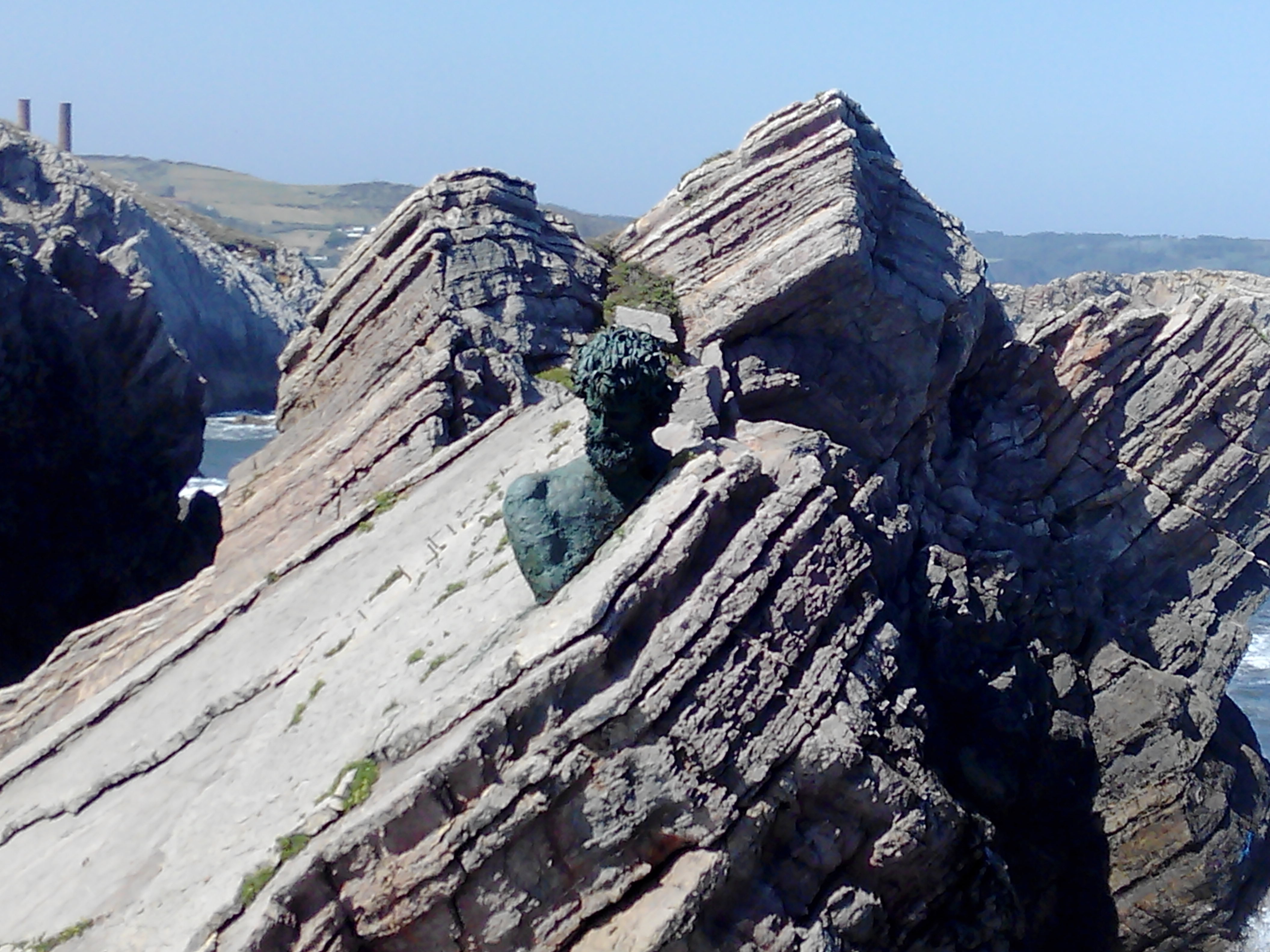 This is a photography of a Special Area of Conservation in Spain with the ID: ES1200055. Natura2000 entry, EEA entry